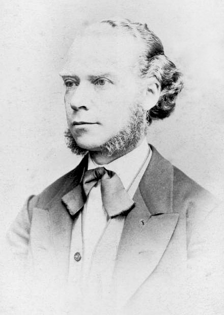 The German pianist and composer Carl Reinecke (1824—1910)